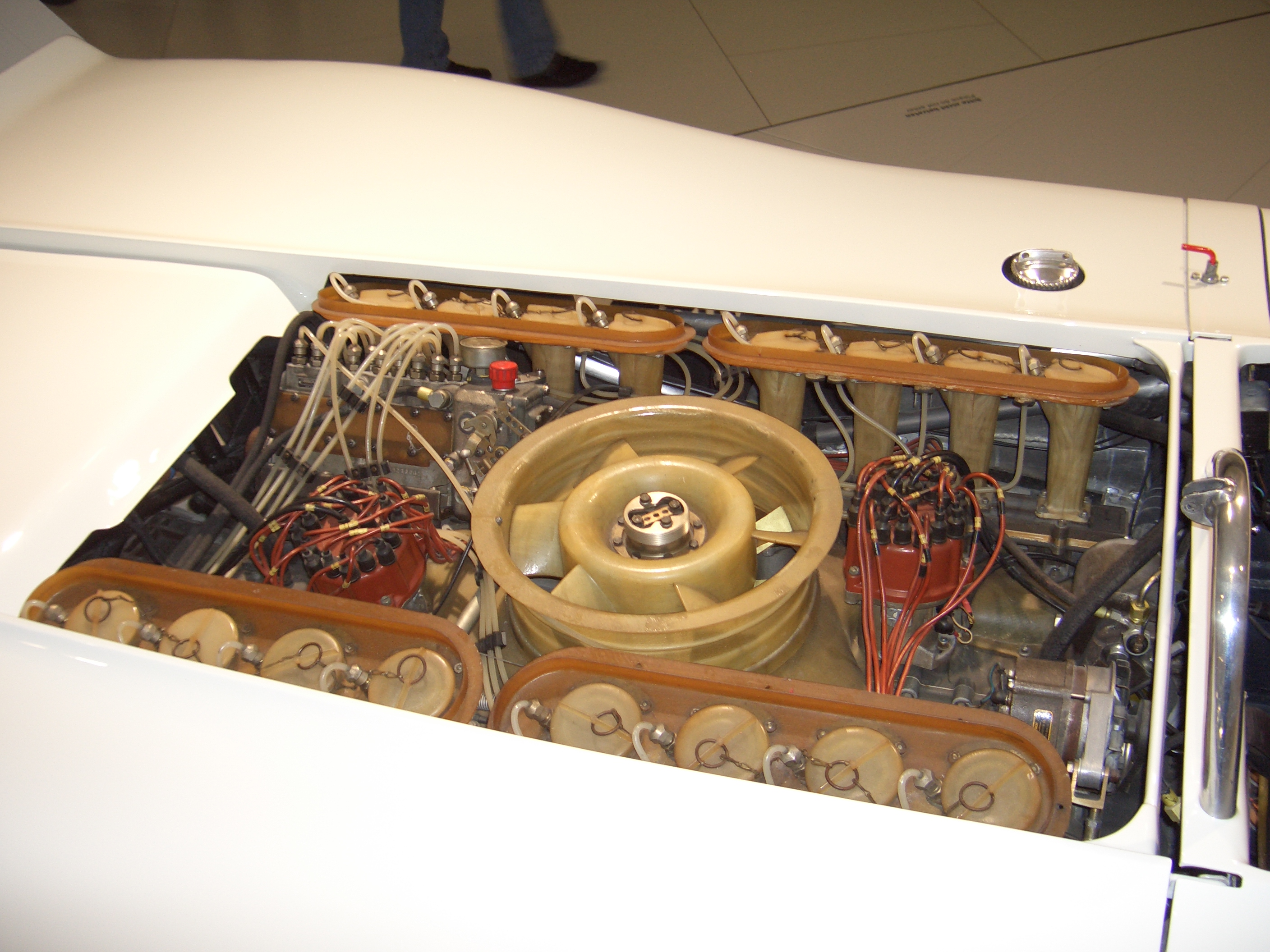 see filename for despcription - seen at PORSCHE MUSEUM in Stuttgart, Germany